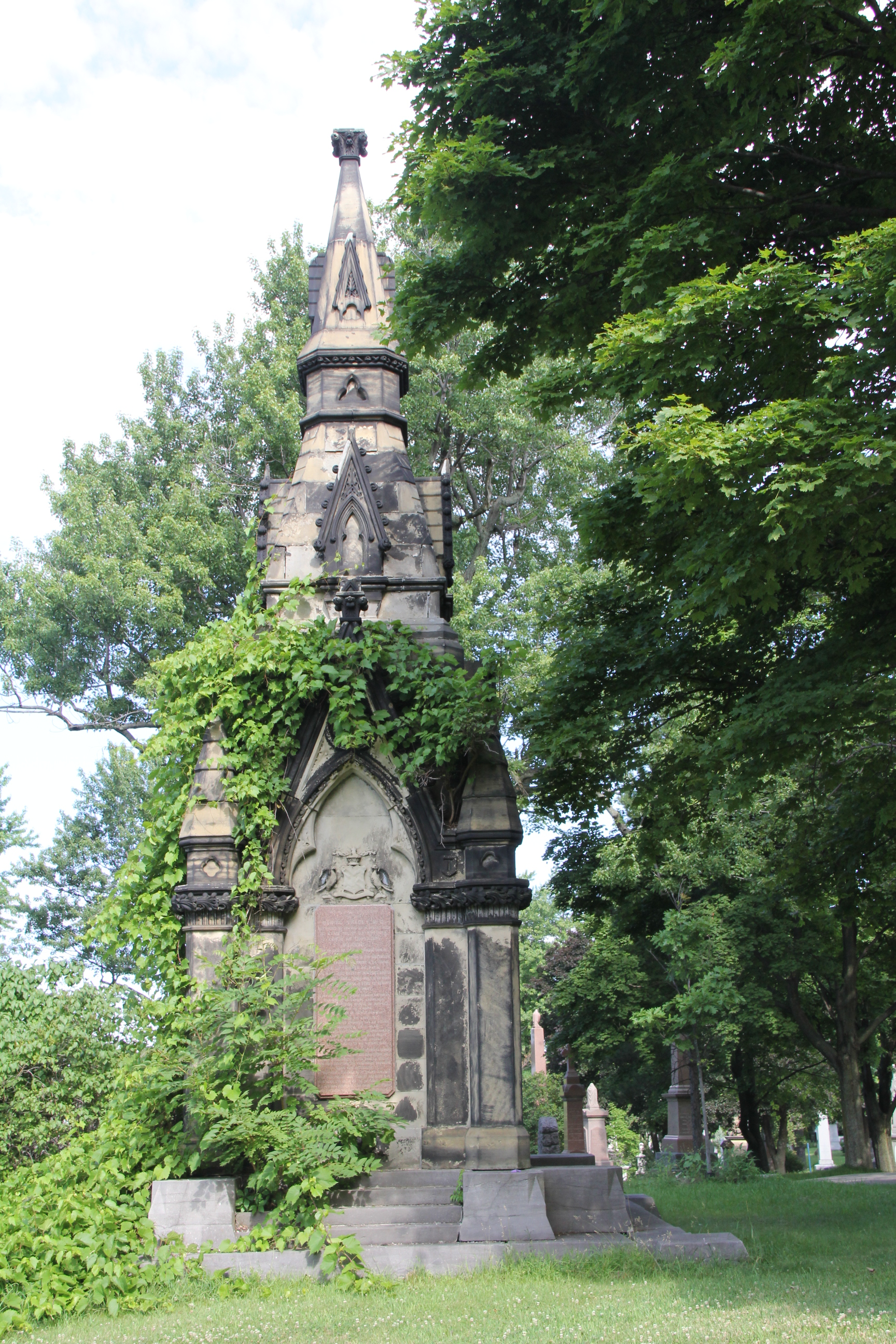 Daniel Tracey’s (1794-1832) tombstone, Notre-Dame-des-Neiges Cemetery (C39), Montreal.